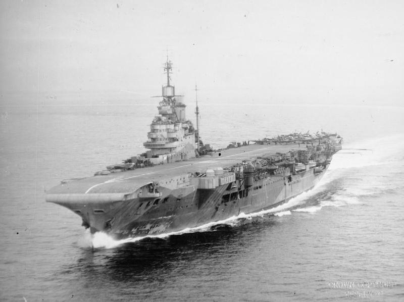 HMS Indomitable Underway.